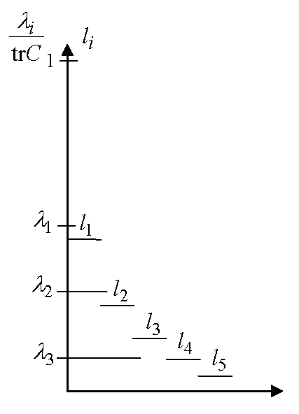 Example. The brocken-stick model for PCA in 5D